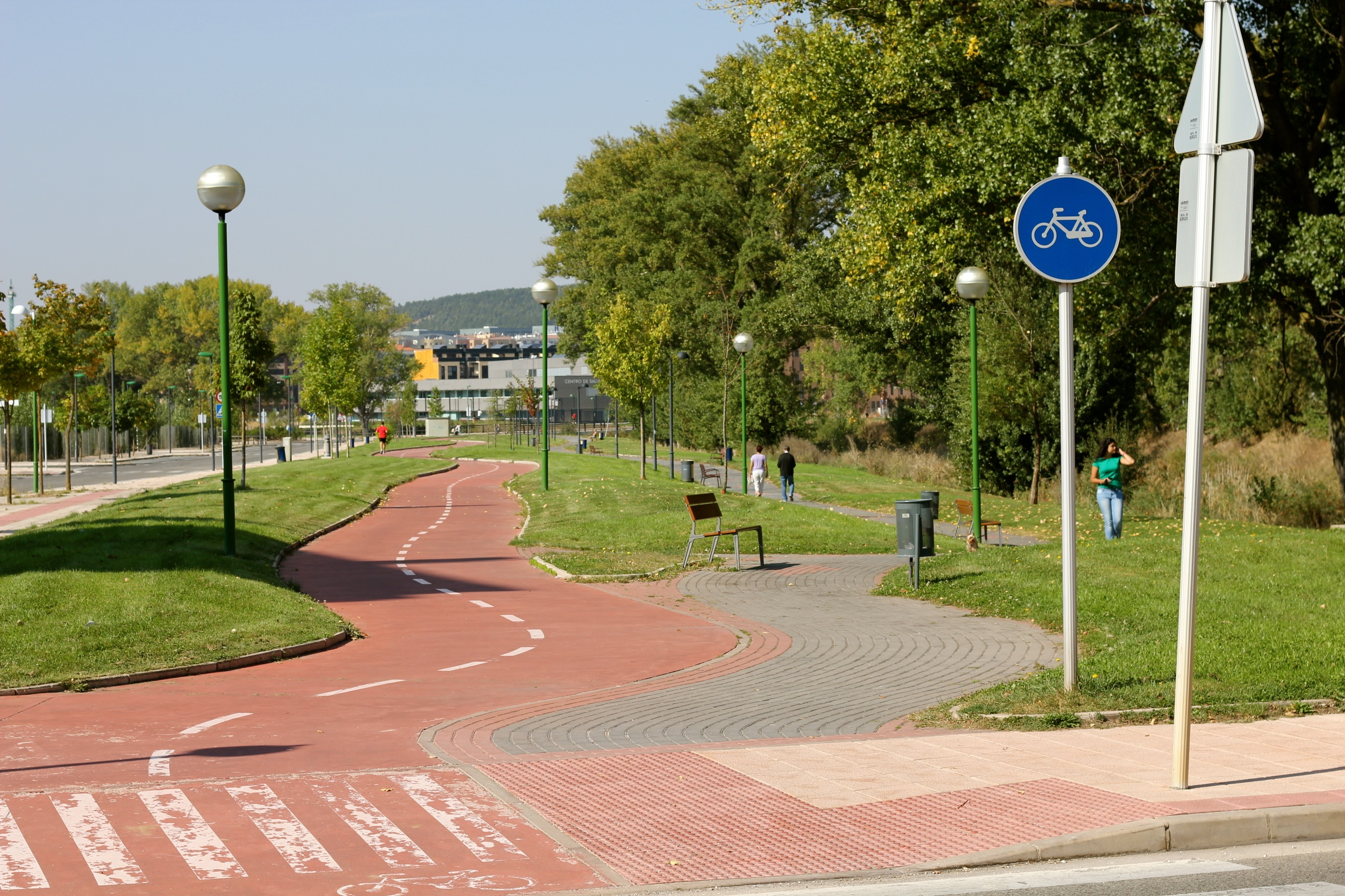 Part of the more then 100km of bike lanes spanning through Burgos